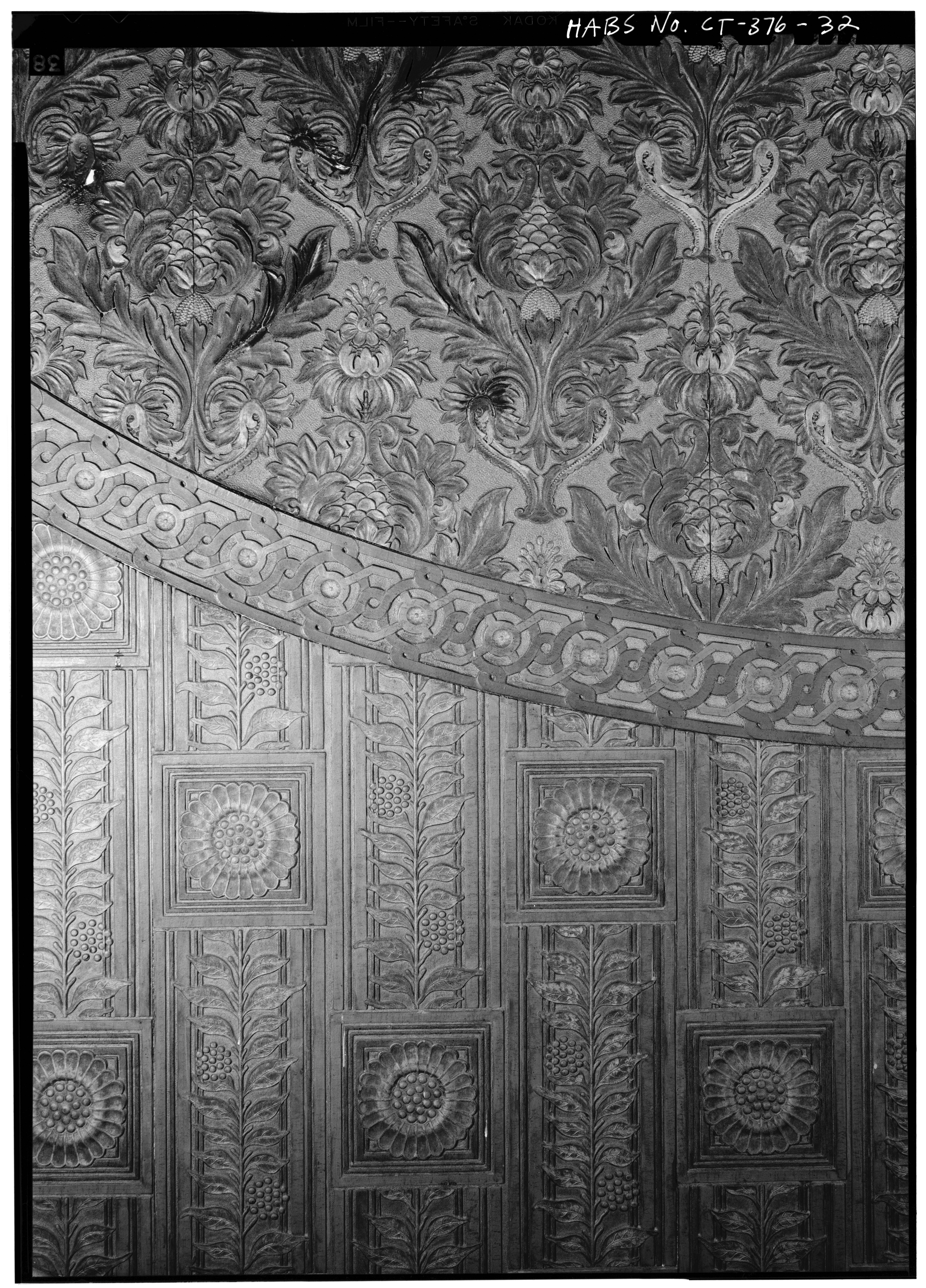 Roseland Cottage (Bowen Cottage), Woodstock, Connecticut, USA. Detail of Lincrusta Walton wall covering, stair hall, first floor.